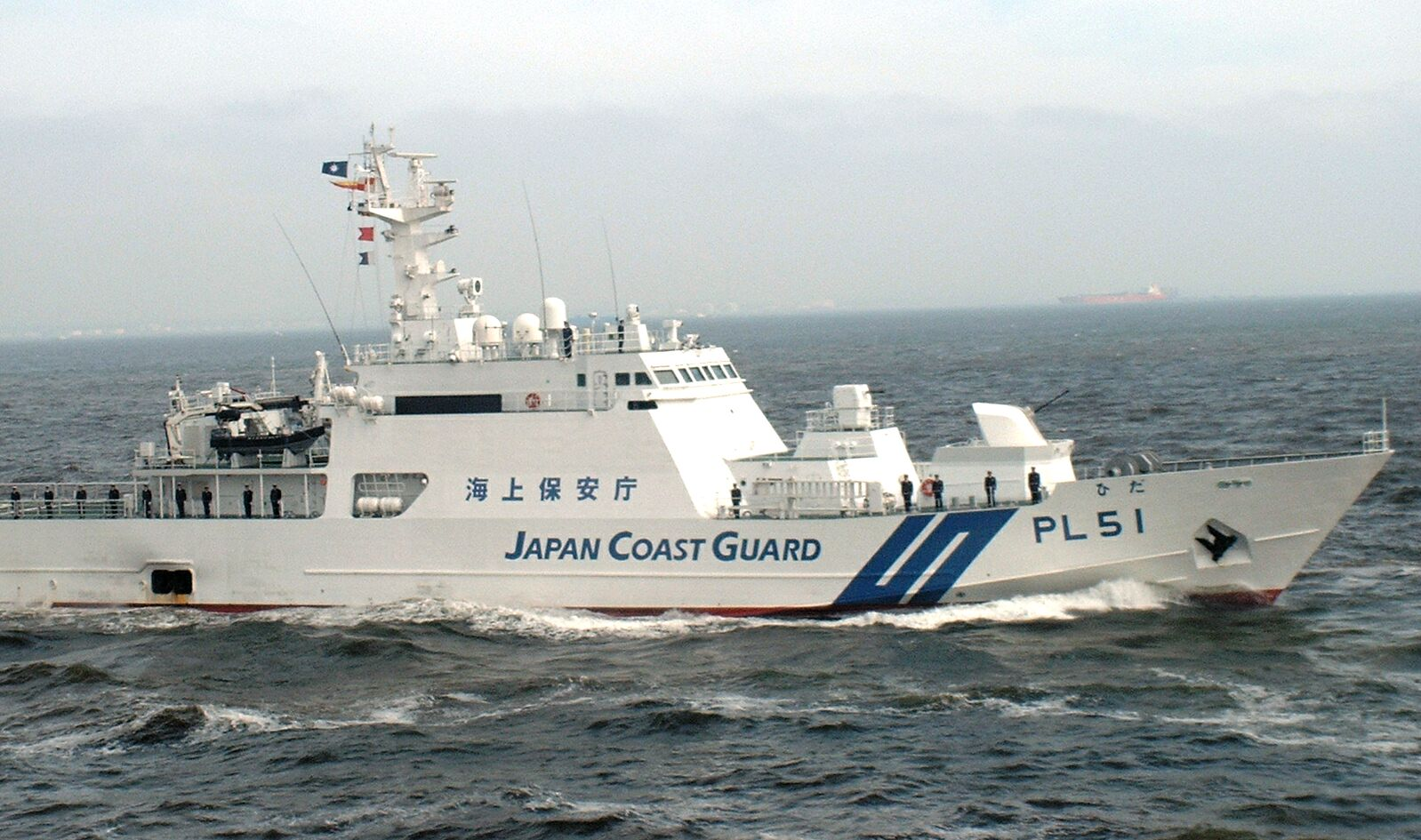 海上保安庁 巡視船 PL51「ひだ」 第51回海上保安庁観閲式にて 2006/May 28 投稿者Sizuruが撮影 Japan Coast Guard(JCG) PL51 Hida